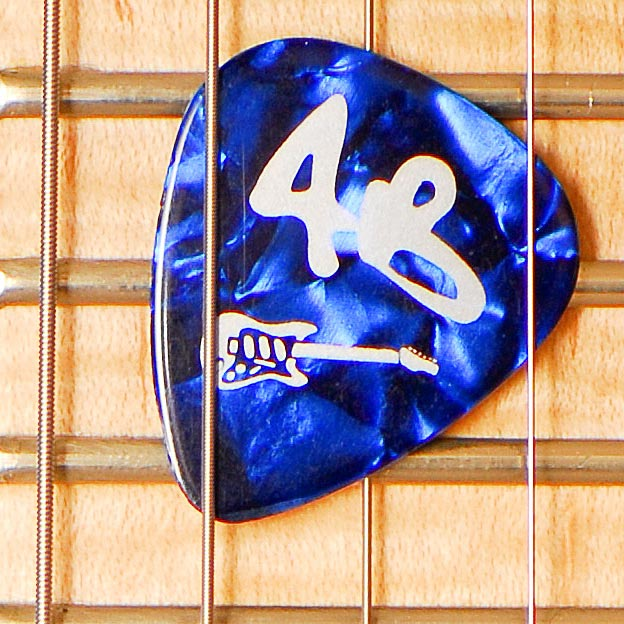 AB_pick (by Art Bromage)